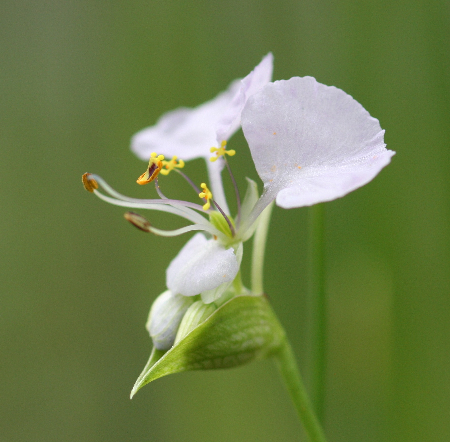 A photograph of the spathe and inflorescence of Commelina fluviatilis, a semi-aquatic plant from Central Africa. This particular genotype was collected in Tanzania with the collection number Faden 96/510, although the material used for the photograph was grown in the Smithsonian research greenhouses in Suitland, Maryland, USA. The collection is discussed in the Flora of Tropical East Africa (2012): "Plants that were collected from the margins of Chaya Lake in July, 1996 (Faden et al. 96/510) included many that had become stranded in the mud on the receding margins of the lake, during the early part of the dry season. The plant was rooted in the ground, with tuberous roots, and was probably able to withstand total desiccation"